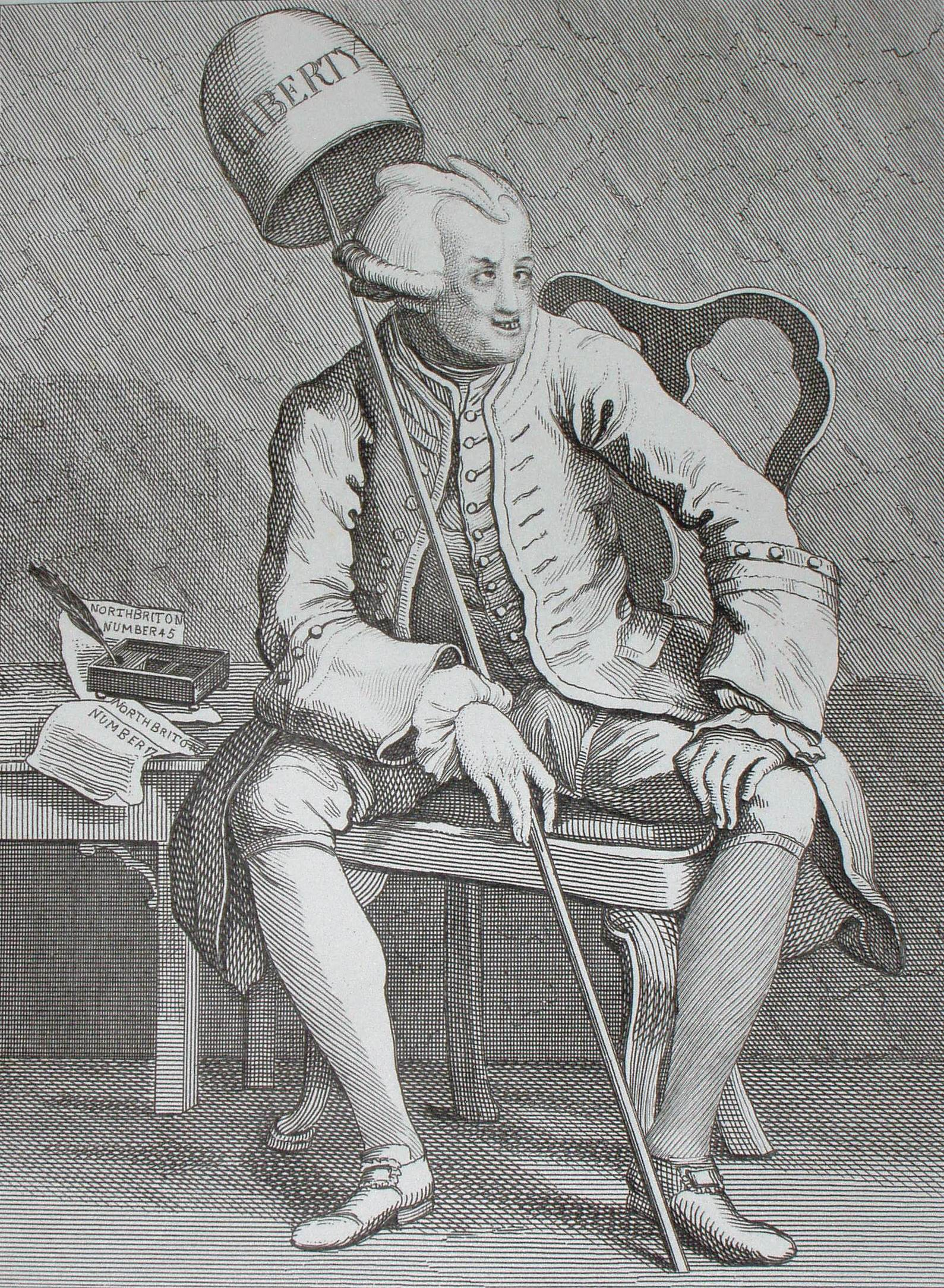 Engraving of John Wilkes